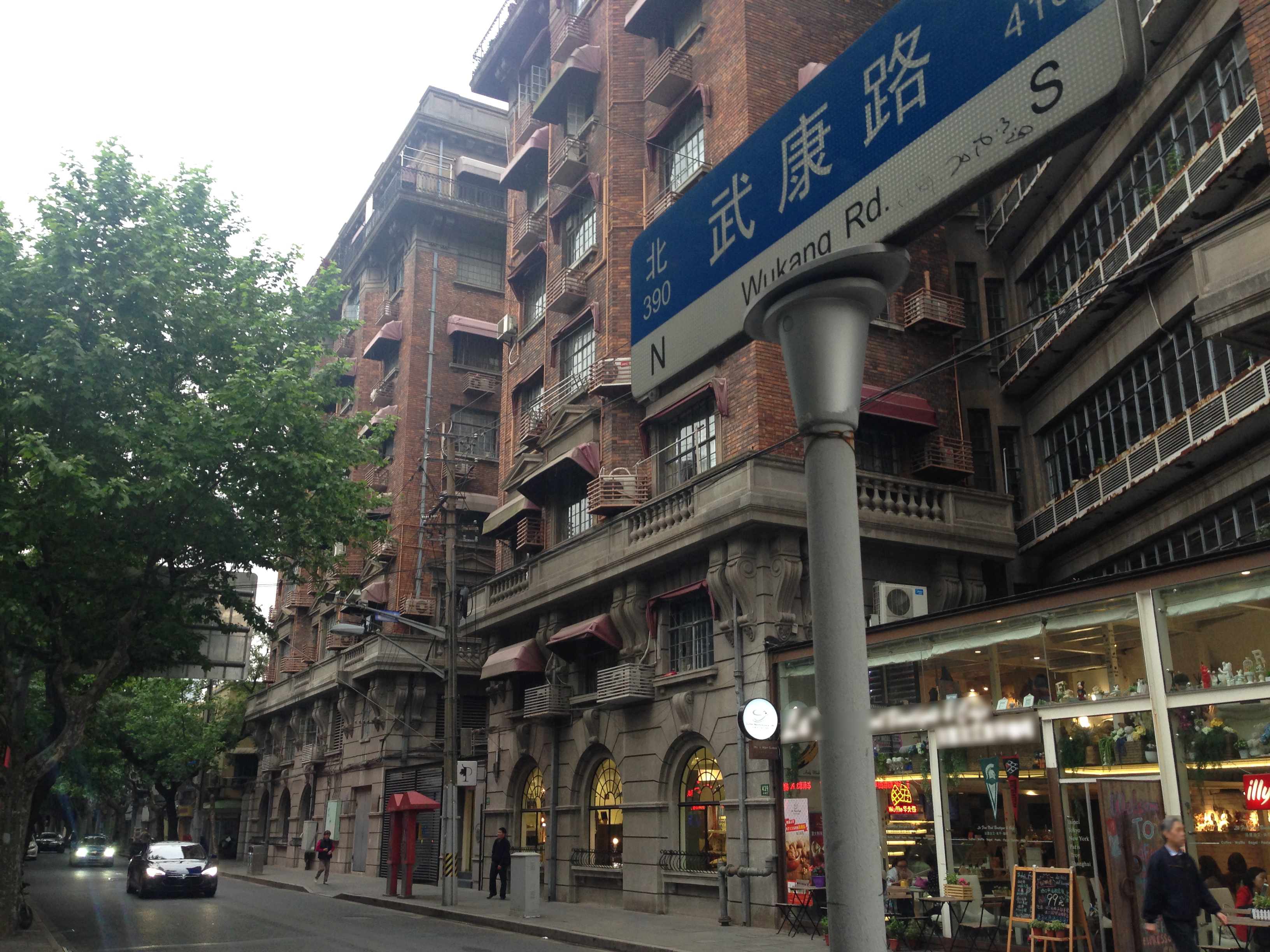 Street view of Wukang Road, Shanghai, near Huaihai Road.